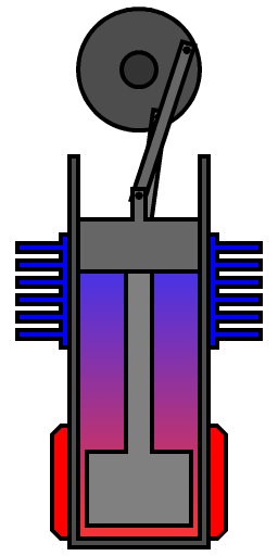 Single frame of Image:Stirling Animation.gif.